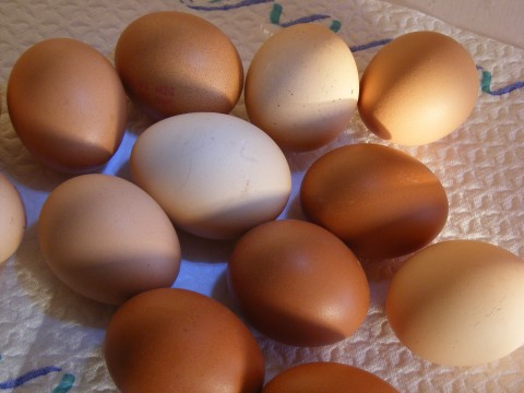 Free Photos – Chicken eggs More photos and details about possible copyright or licensing restrictions here: Full Size Up to 3072 x 2304 pixels Information Regarding Copyright